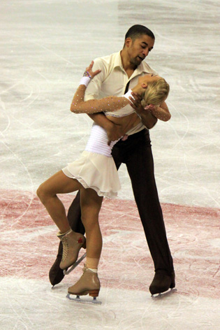 Aliona Savchenko and Robin Szolkowy at the 2009 Skate Canada International.